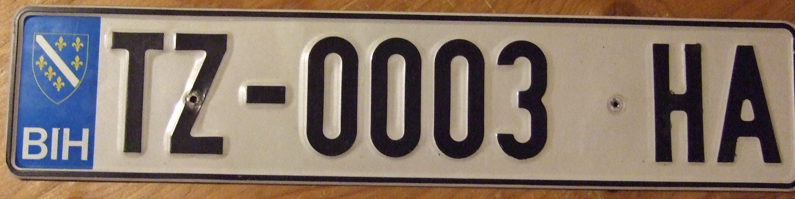 A license plate from the the former Yugoslav state of Bosnia-Herzogovina